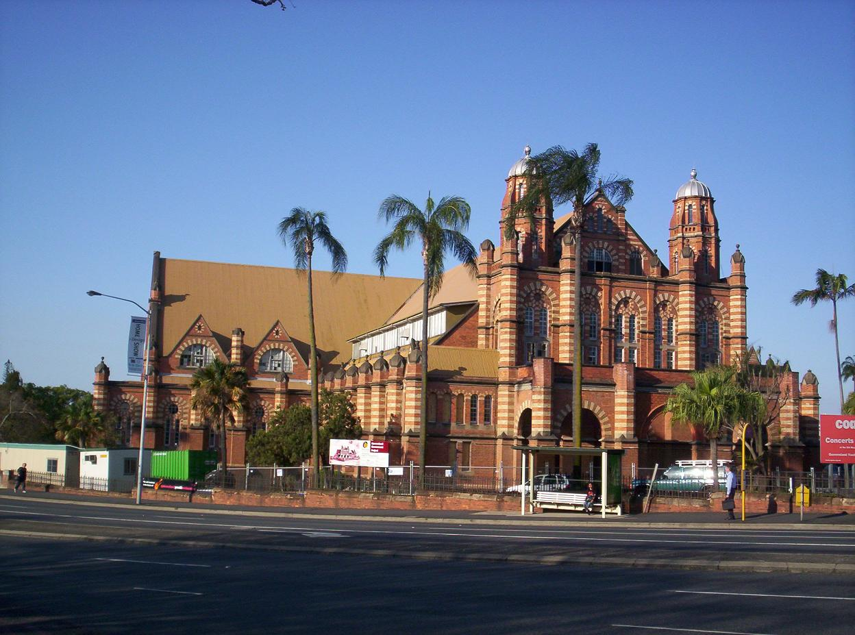 The old Queensland Museum ( this photograph was taken by Figaro )